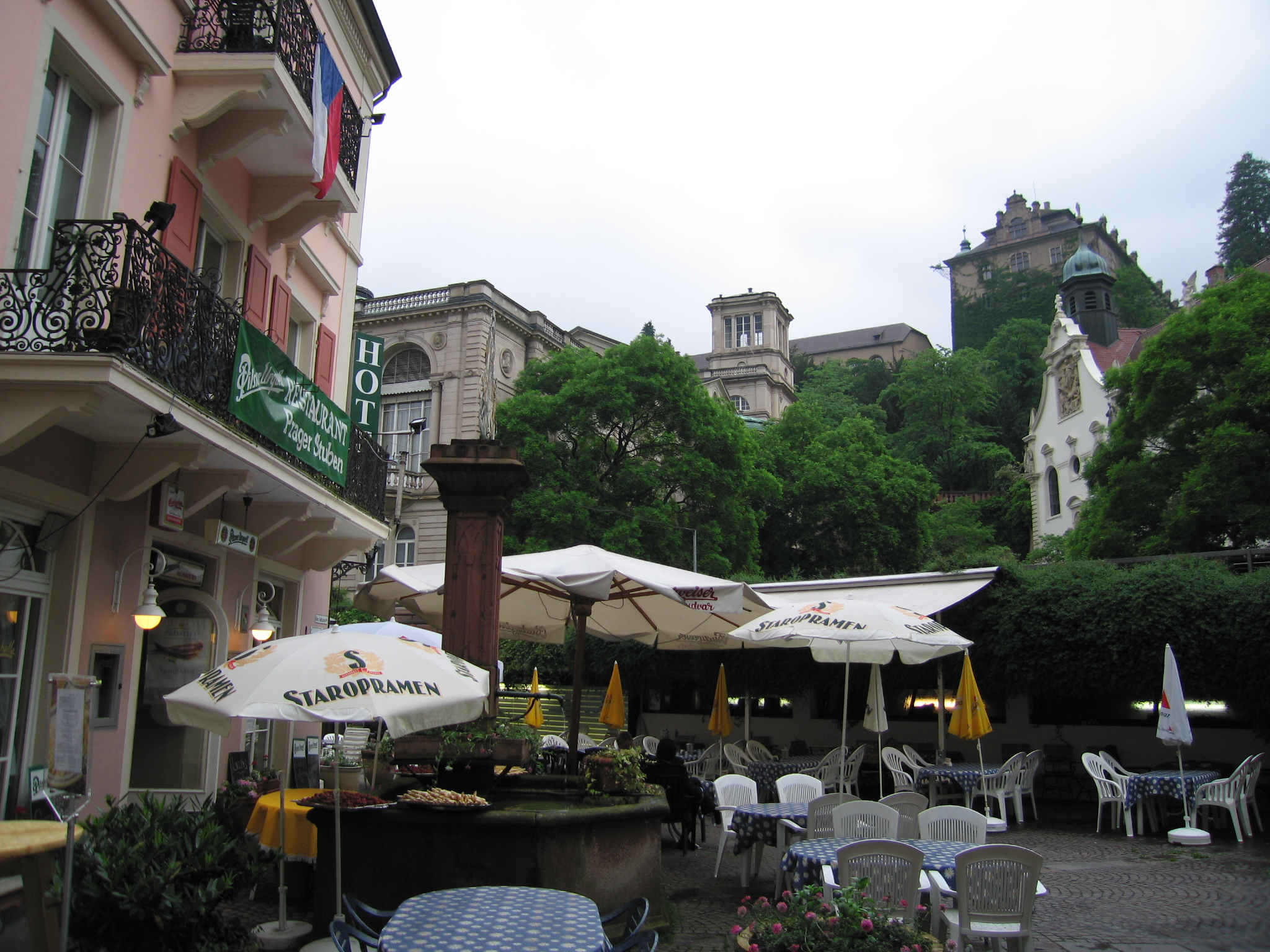 Baden-Baden, Baden-Württemberg, Germany - In front of local restaurant "Prager Stuben" - spa area with view at "Friedrichsbad" Author: John C. Watkins V